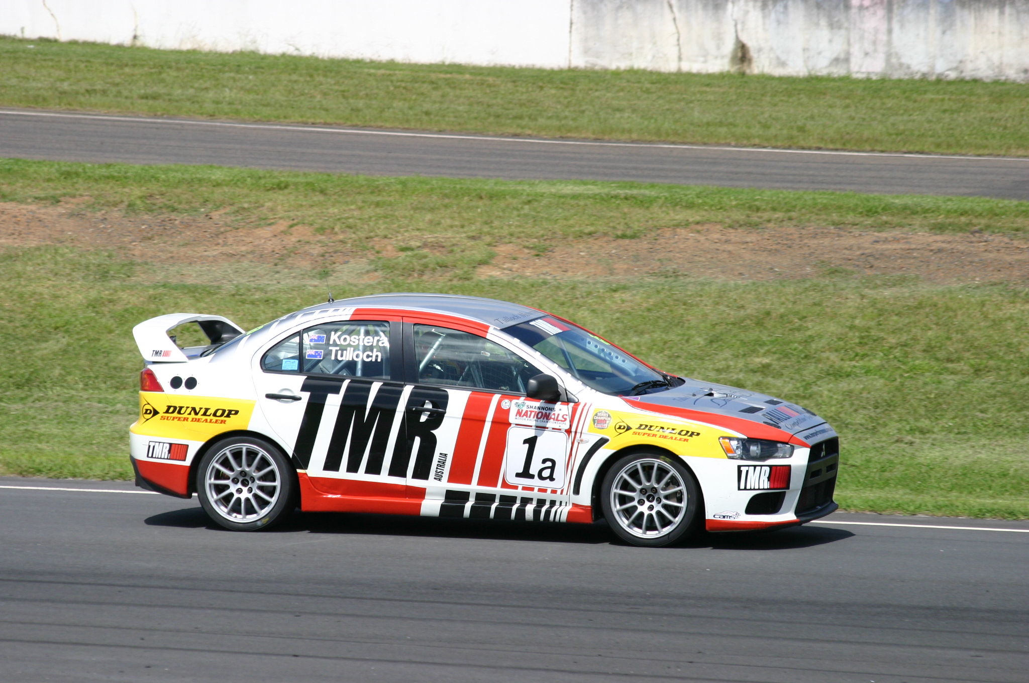 The Mitsubishi Lancer Evolution X of Stuart Kostera and Ian Tulloch at Sydney Motorsport Park in 2012.